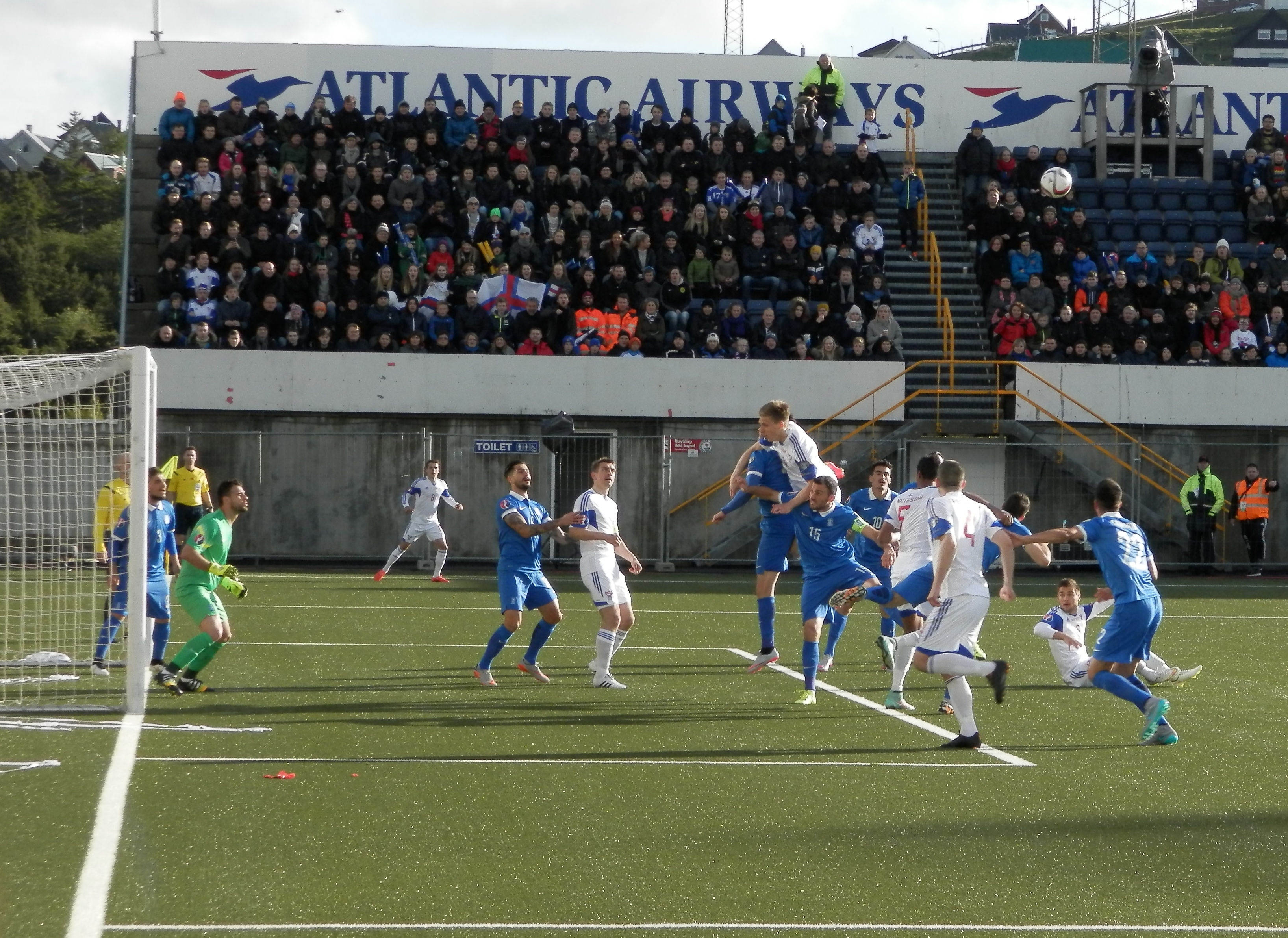 From the football match between the Faroe Islands vs Greece, played on Tórsvøllur Stadium in Tórshavn on 13 June 2015. Faroe Islands won the match 2-1.